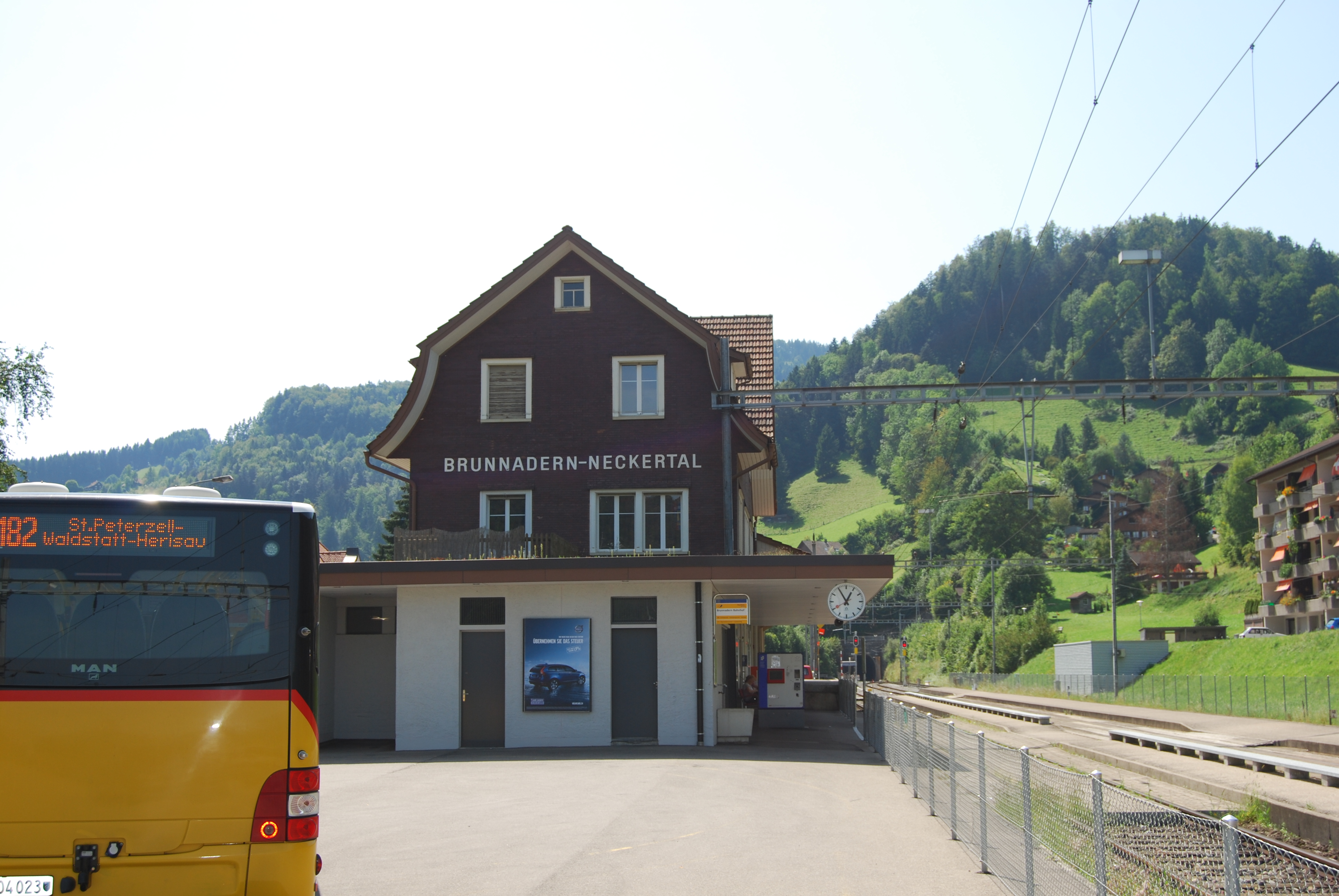 Train station of Brunnadern, municipality of Neckertal, canton of St. Gallen, Switzerland